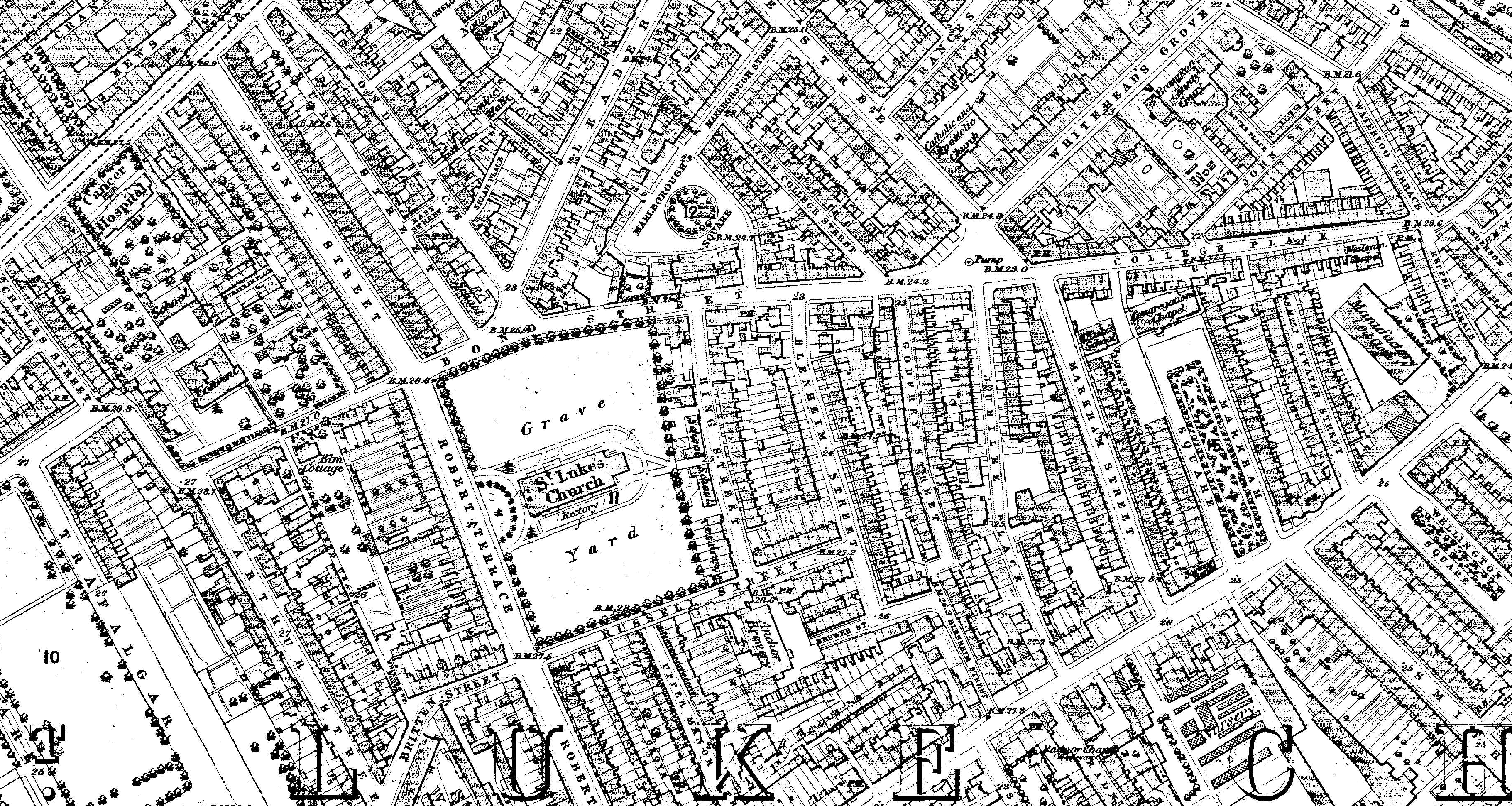 Cale Street on Sheet 053, Ordnance Survey, 1869-1880